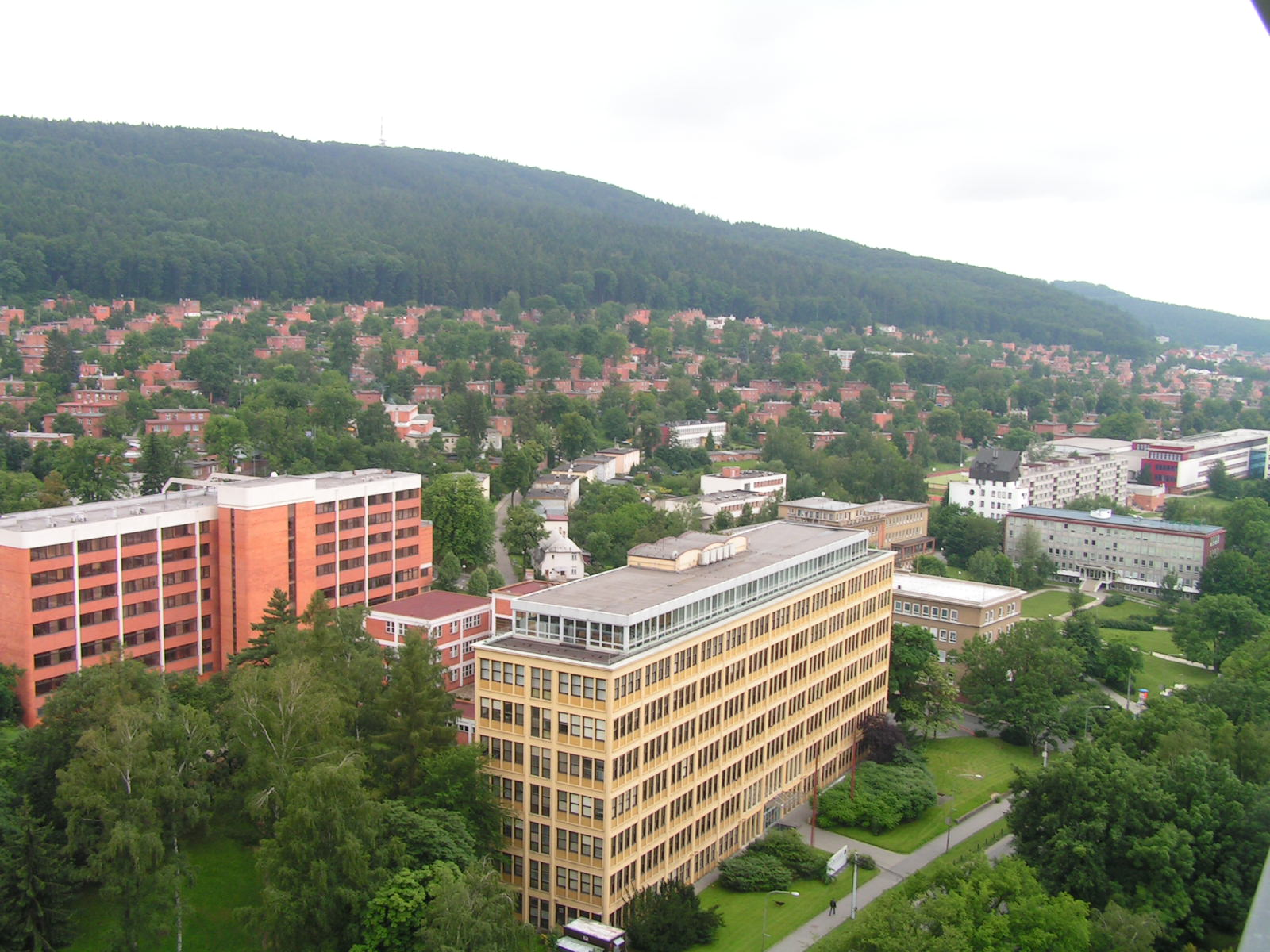 Zlín, quarter Letná.